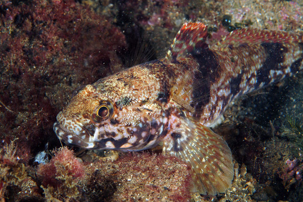 Head of Gobius paganellus photographed in Tuscany (Italy). Photo by Stefano Guerrieri.